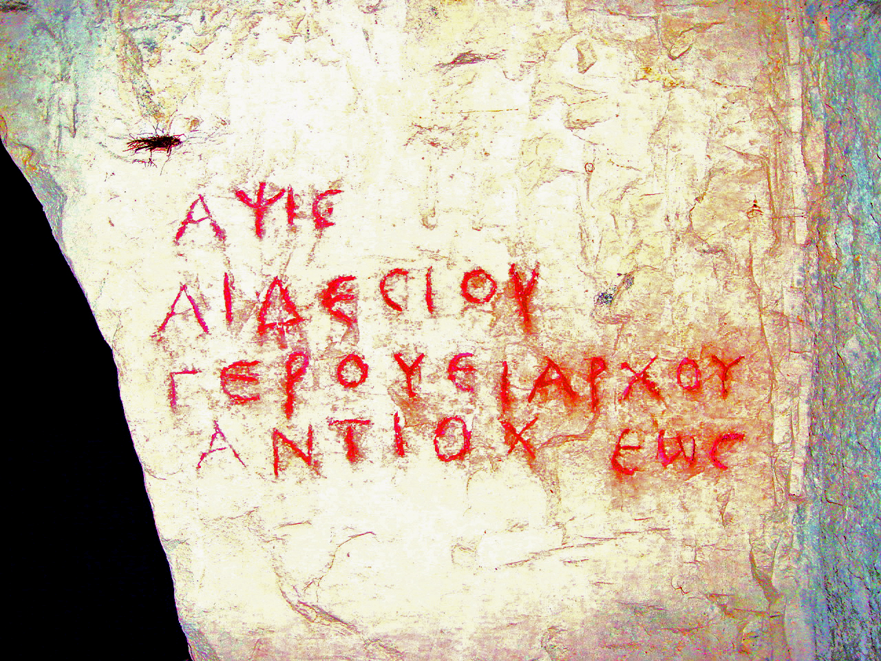 Wall inscription (epitaph) in Greek: "The tomb of Aidesios, head of the council of elders, from Antiochia" (ΑΨΙΣ ΑΙΔΕΣΙΟΥ ΓΕΡΟΥΣΙΑΡΧΟΥ ΑΝΤΙΟΧΕΩΣ)